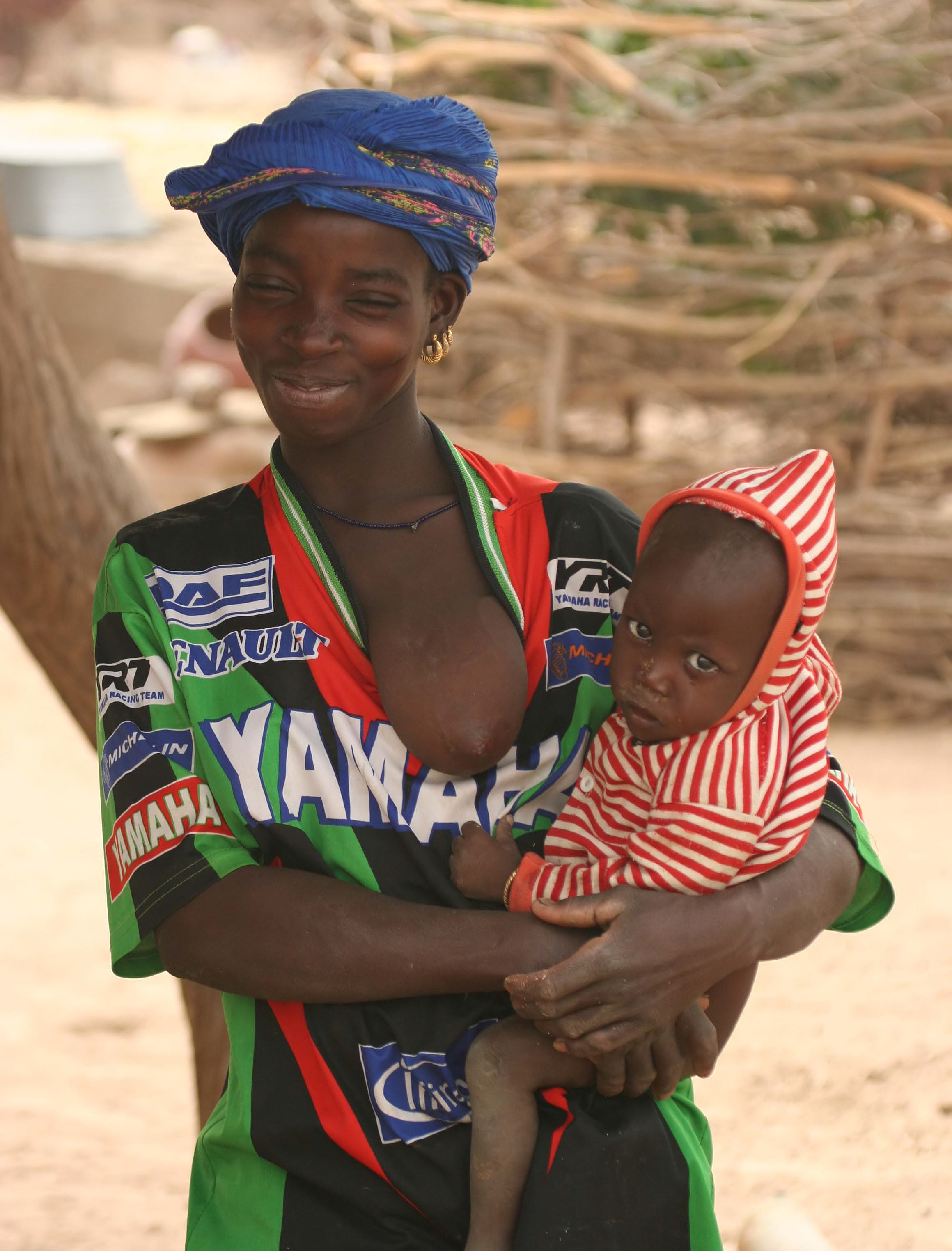 Mother with baby in a village just outside Bamako, the capital of Mali.